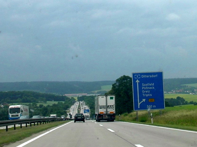 Original Autobahn (South-Eastern Germany). DF08 2003 image.